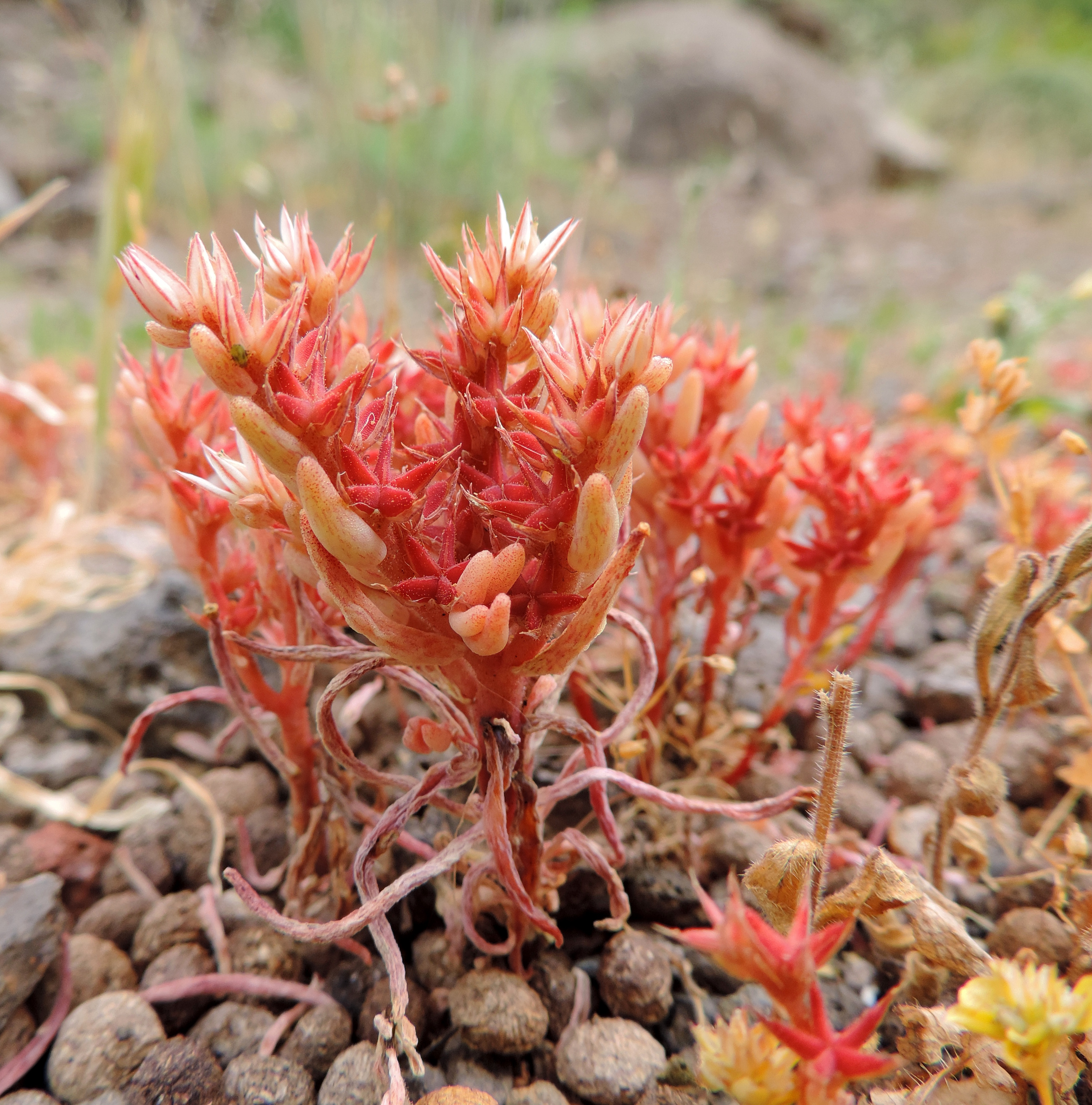 Sedum rubens in Barranco de Gueyadaque, Gran Canaria